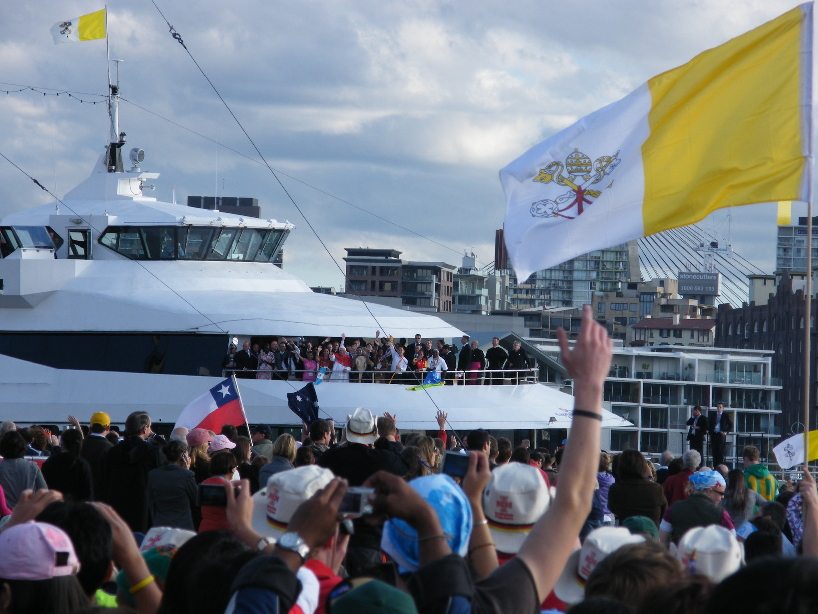 Pope Benedict XVI arriving to Barangaroo, SYD